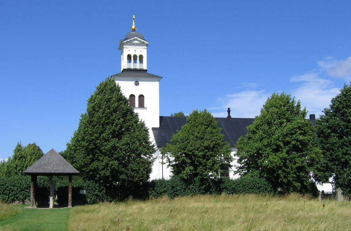 my own pic for wikipedia use